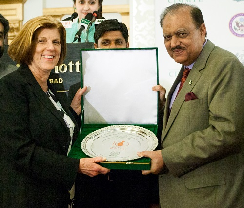 President Mamnoon Hussain presenting Ms. Jeannie Borlaug Laude with a gift celebrating Dr. Norman E. Borlaug's 100th birthday and commemorating 50 years of U.S.-Pakistan cooperation in agriculture.